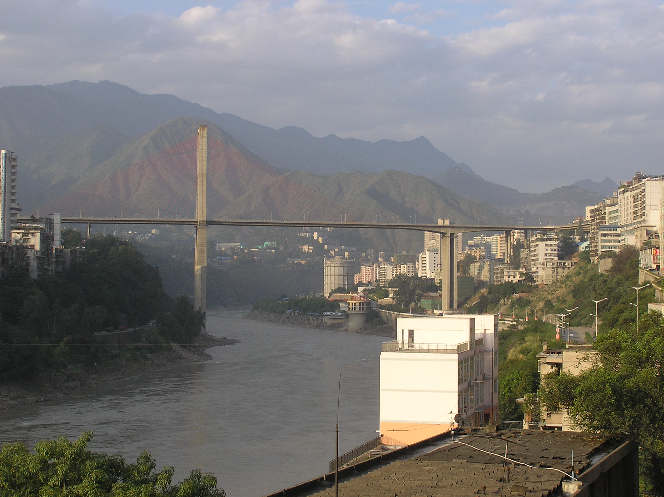 Bingcaogang Bridge over Jinsha River and the mountain city style in Panzhihua. Daheishan (mountain) and Panzhihua iron mine is in the background.